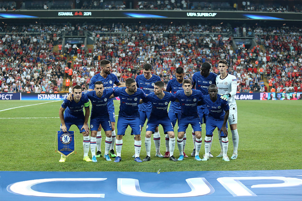 Liverpool vs. Chelsea, 2019 UEFA Super Cup